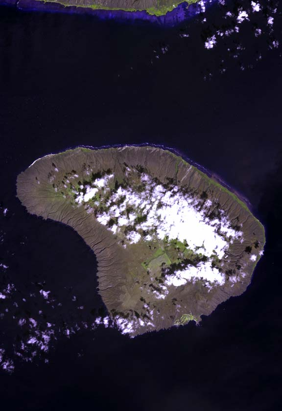 The raw satellite imagery shown in these images was obtain from NASA and/or the US Geological Survey. Post-processing and production by